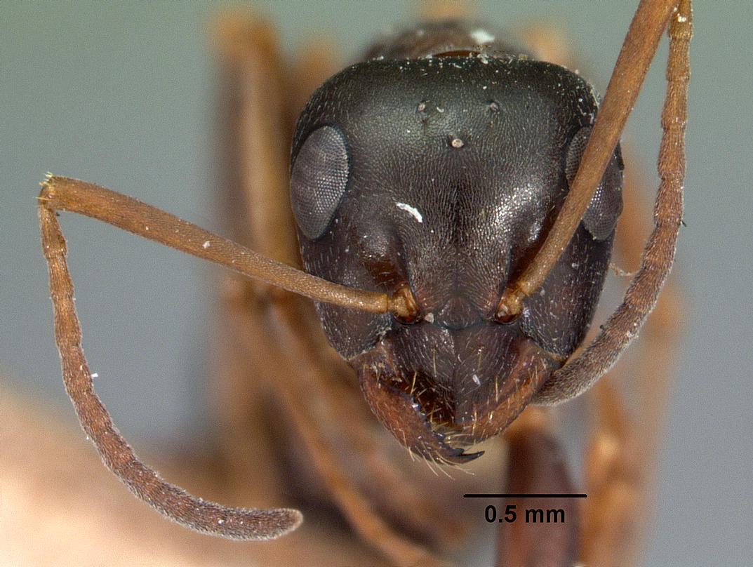 Head view of ant Formica subaenescens specimen casent0102156.